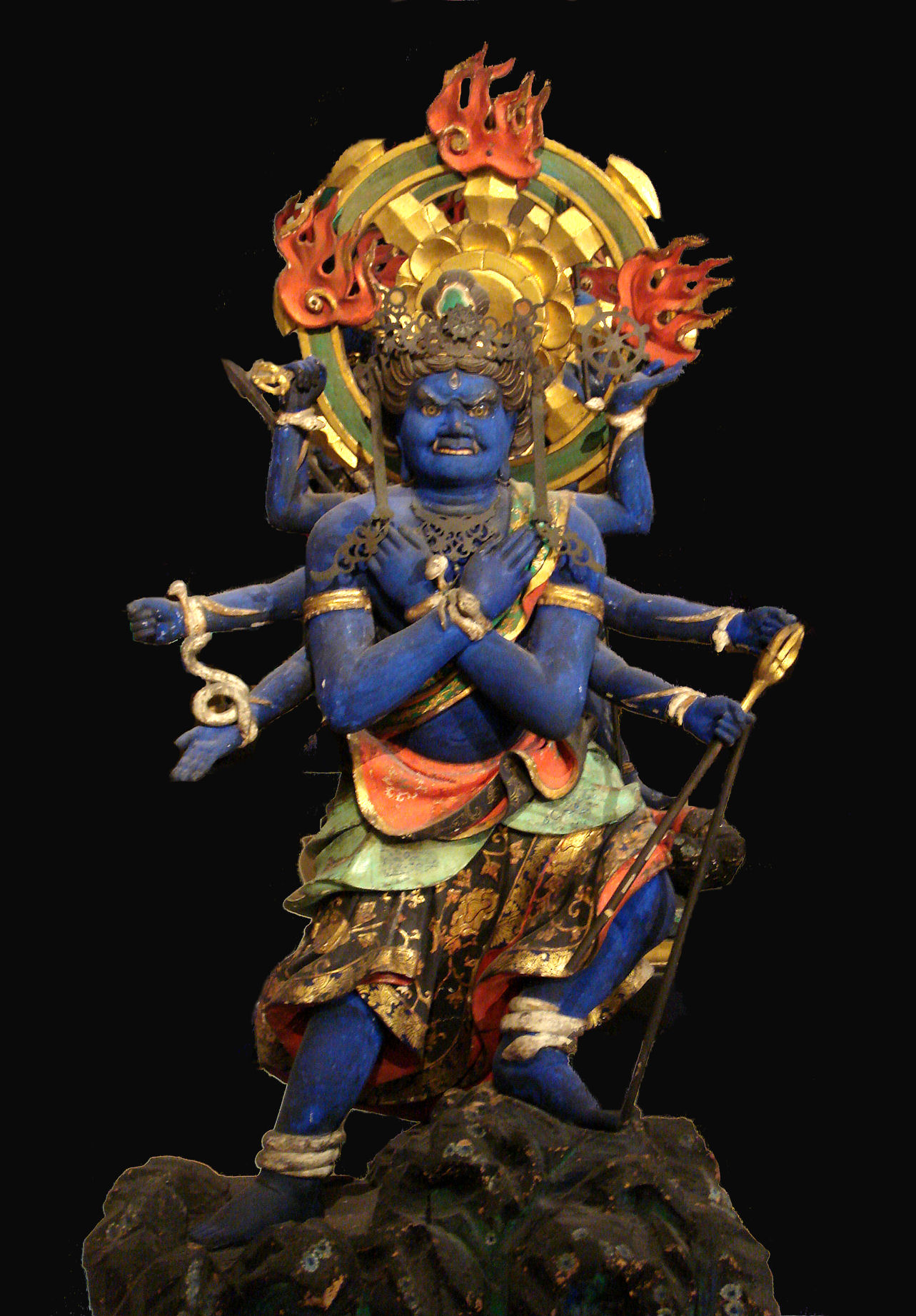 Gundari Myoo